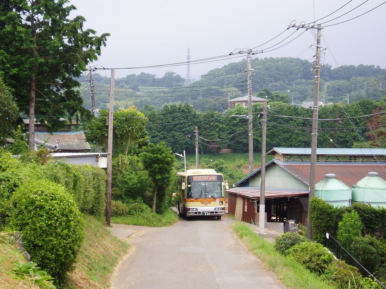 Kanagawa Chuo Kotsu Ha072 Mitsubishi KK-MK23HJ at Nakai Town,Kanagawa